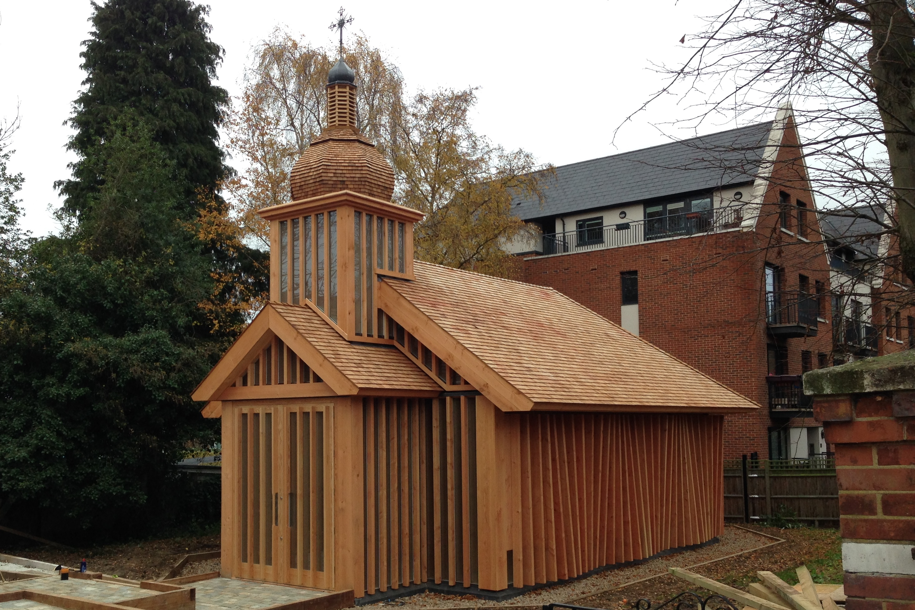 Church of St Cyril of Turaŭ and All the Patron Saints of the Belarusian People, Woodside Park, London N12, seen from Holden Avenue on the day the building fence was removed after the building's completion